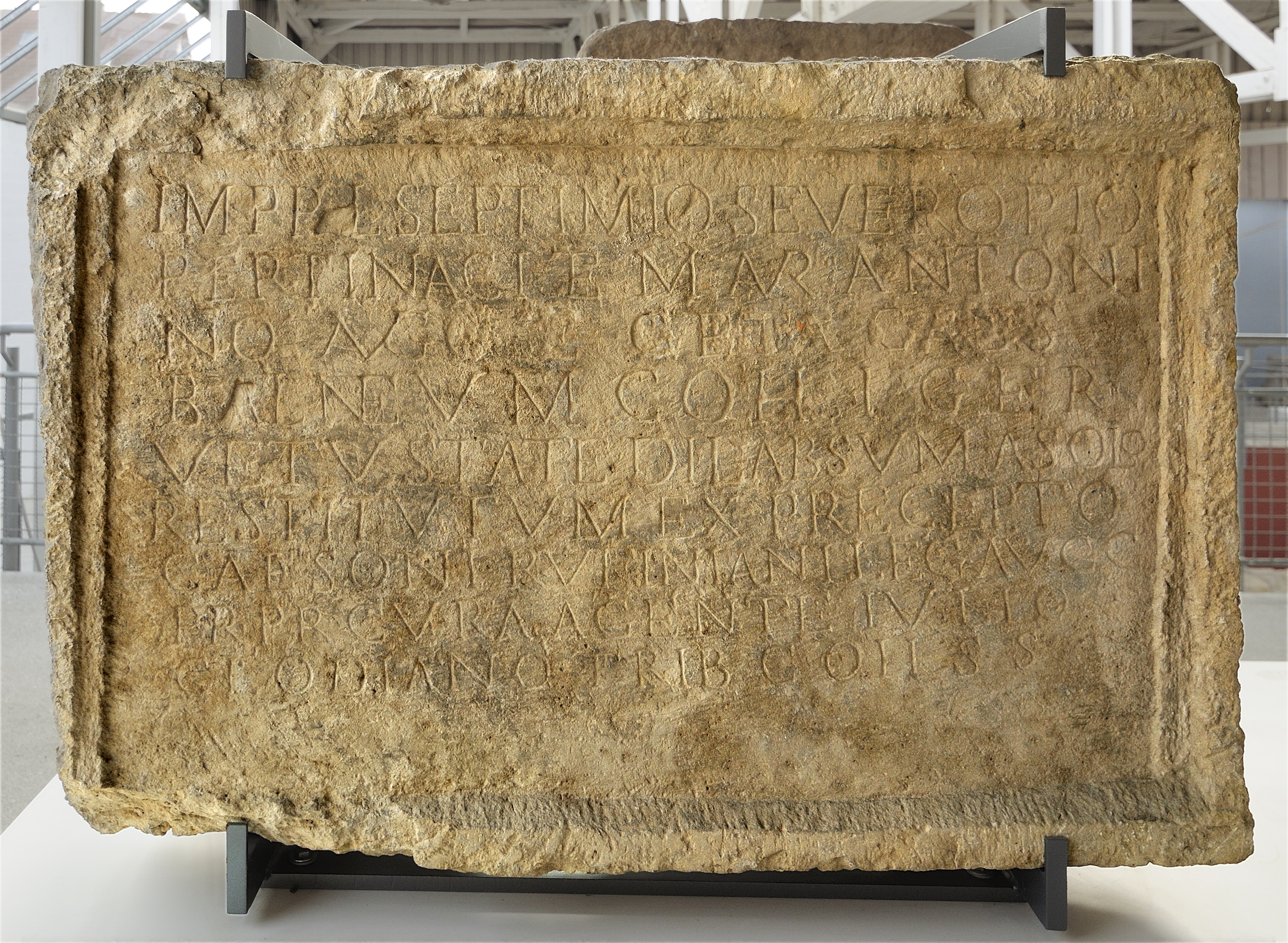 Picture taken in the Roman history museum in Osterburken.